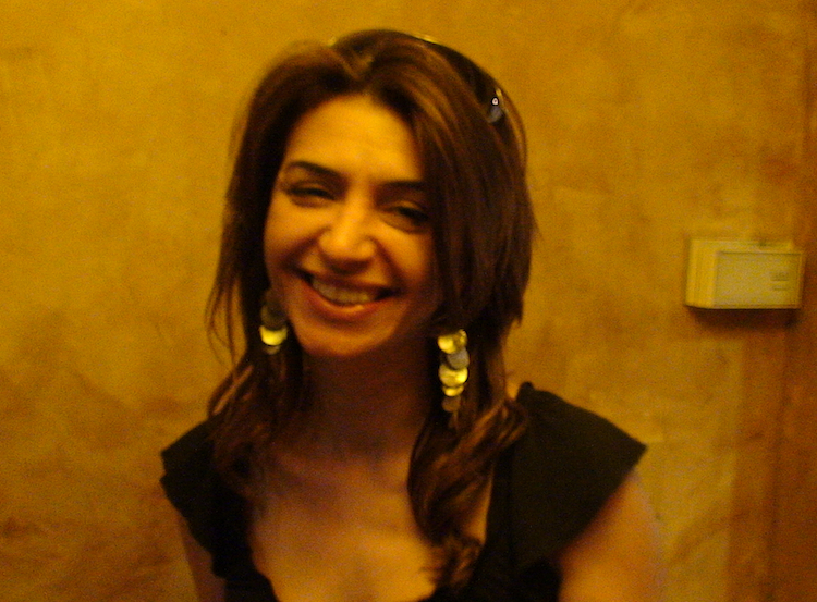 Israeli artist Mira Sasson, painter of artist portraits for Pioneers For A Cure - Songs To Fight Cancer